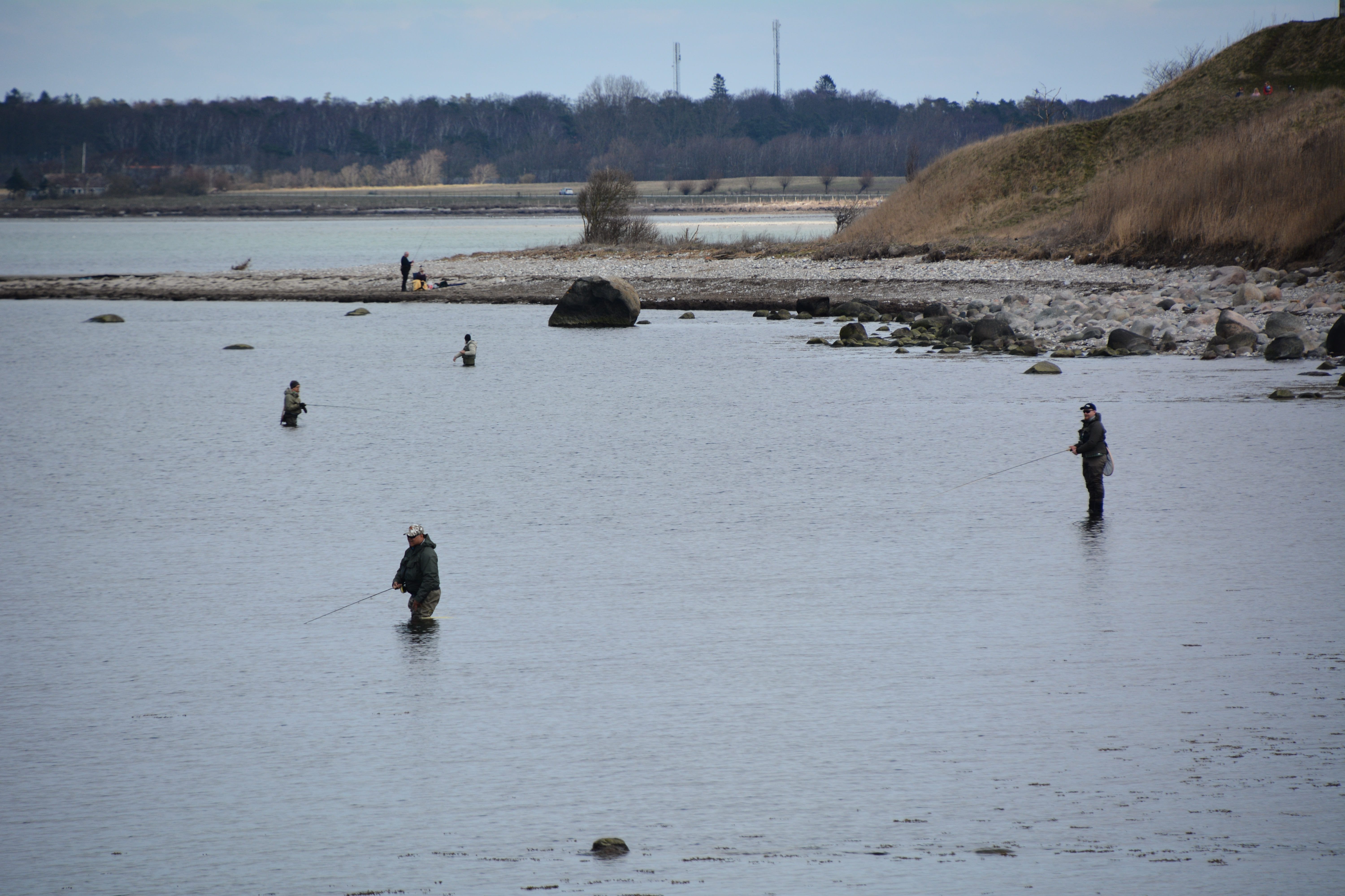 Öringsfiske i Lundåkrabukten april 2015